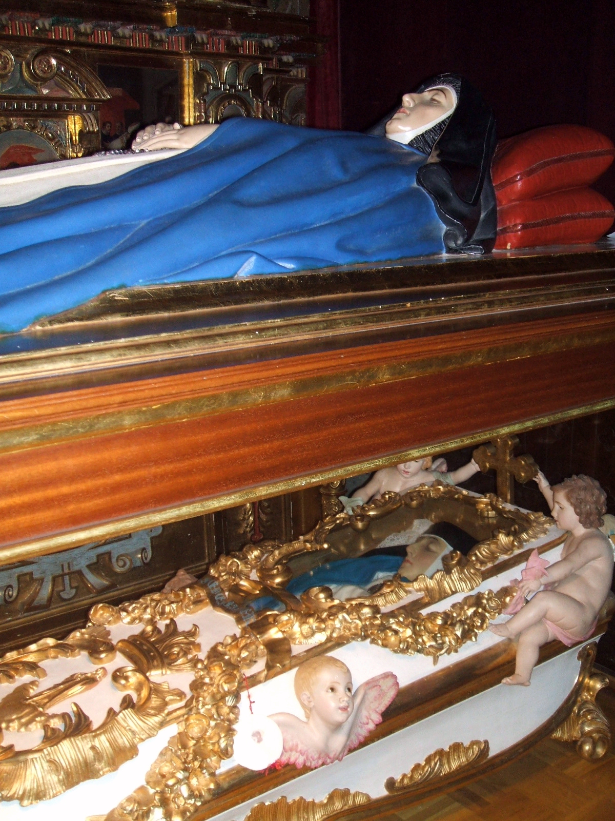 Recumbent statue (above) and incorrupt body (below) of Sister Maria Jesus de Agreda, in the church of the Convent of the Conception of Agreda (Soria, Castile-Leon, Spain)